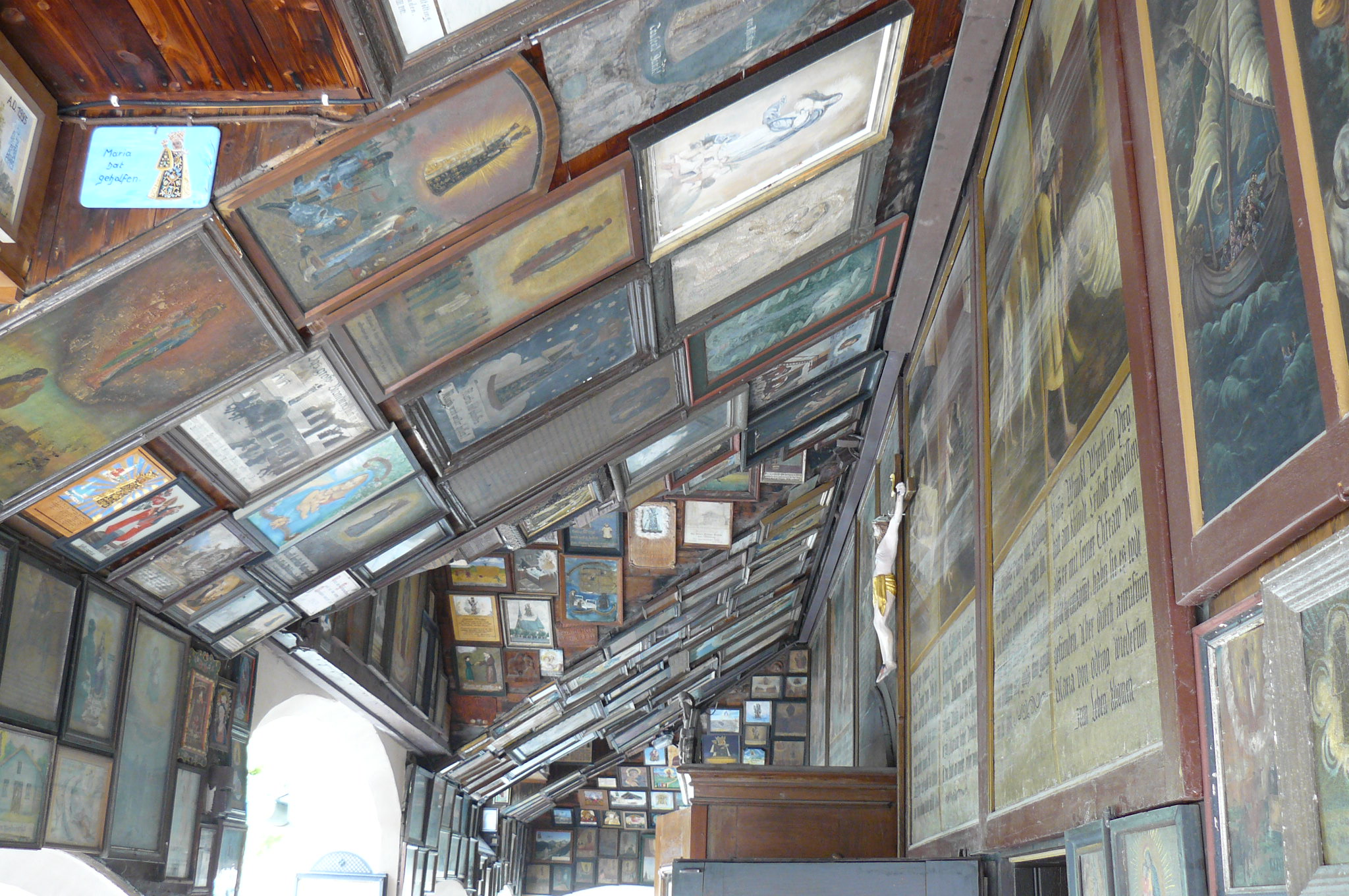 Chapel - Gnadenkapelle in Altotting.